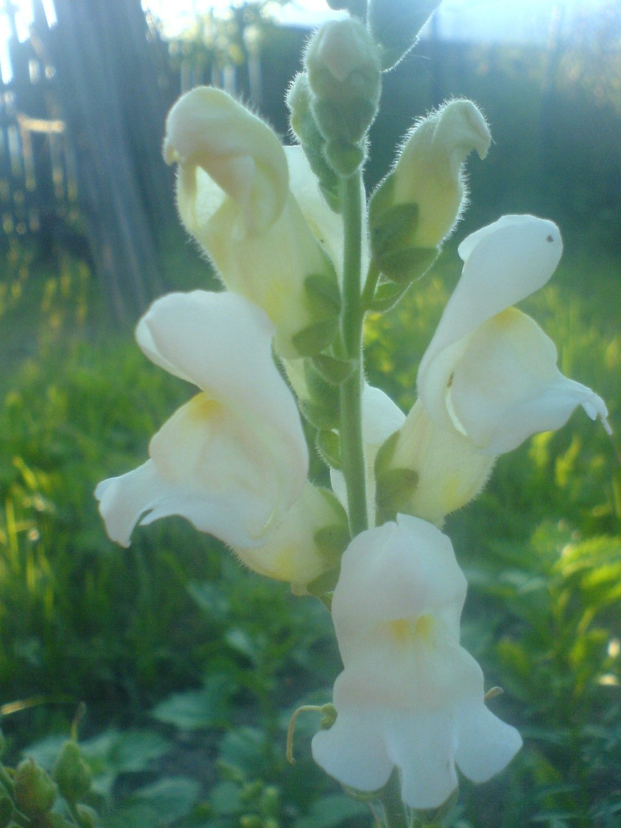 Antirrhinum majus in Lónyaytelep, Transylvania.